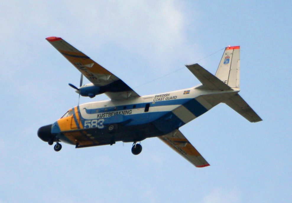 Aeroplane belonging to the Swedish Coast Guard.